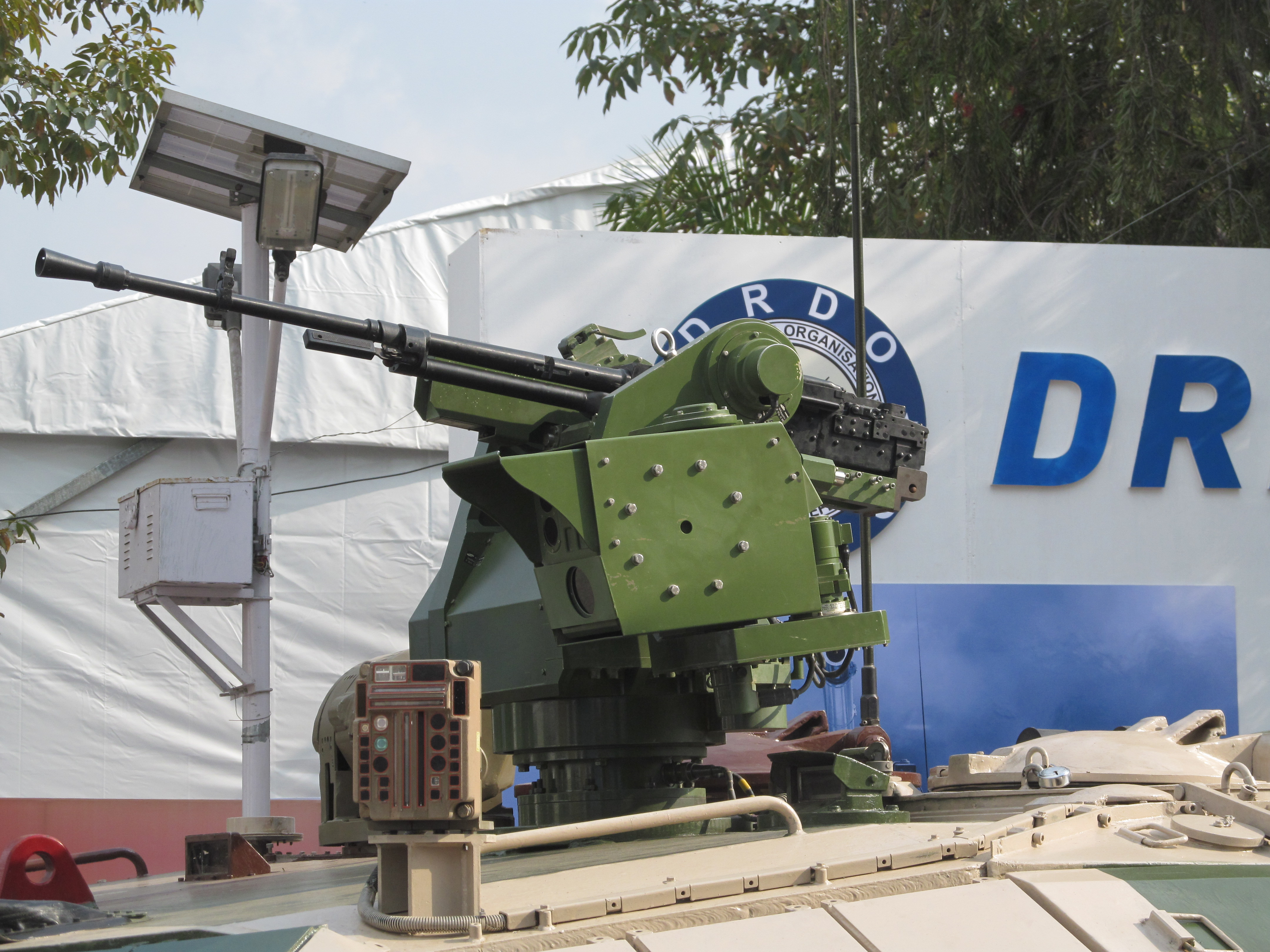 Arjun Mk II remote controlled weapon system, during DefExpo 2014, New Delhi.